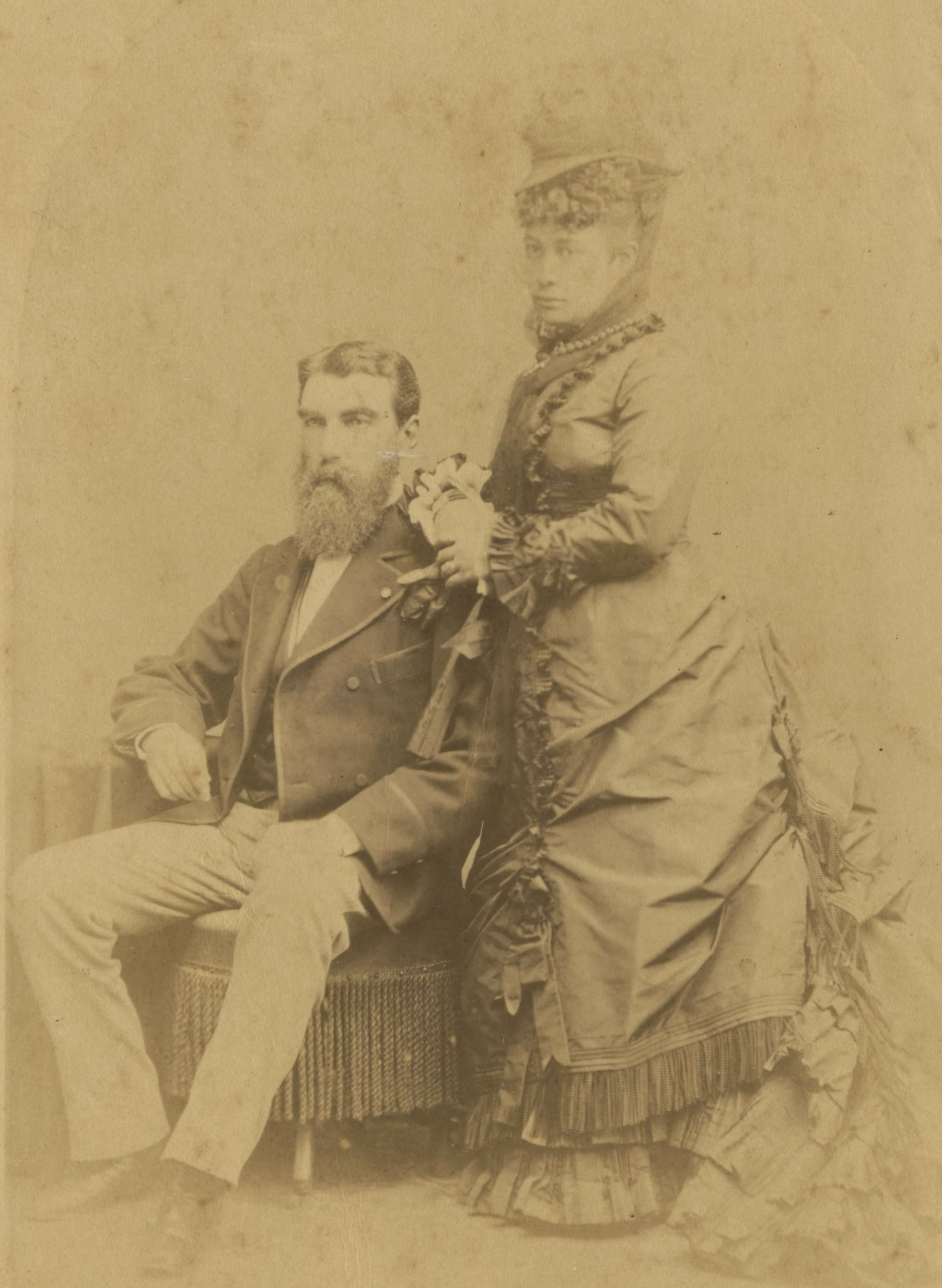 Archibald Scott Cleghorn and Princess Miriam Likelike.